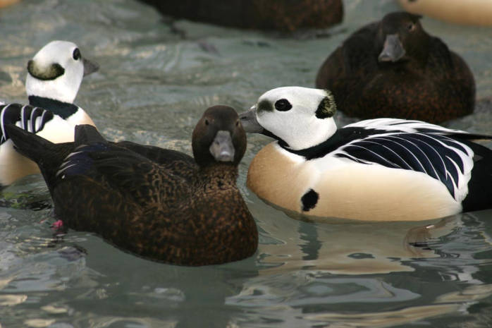 Steller's Eider (Polysticta stelleri)